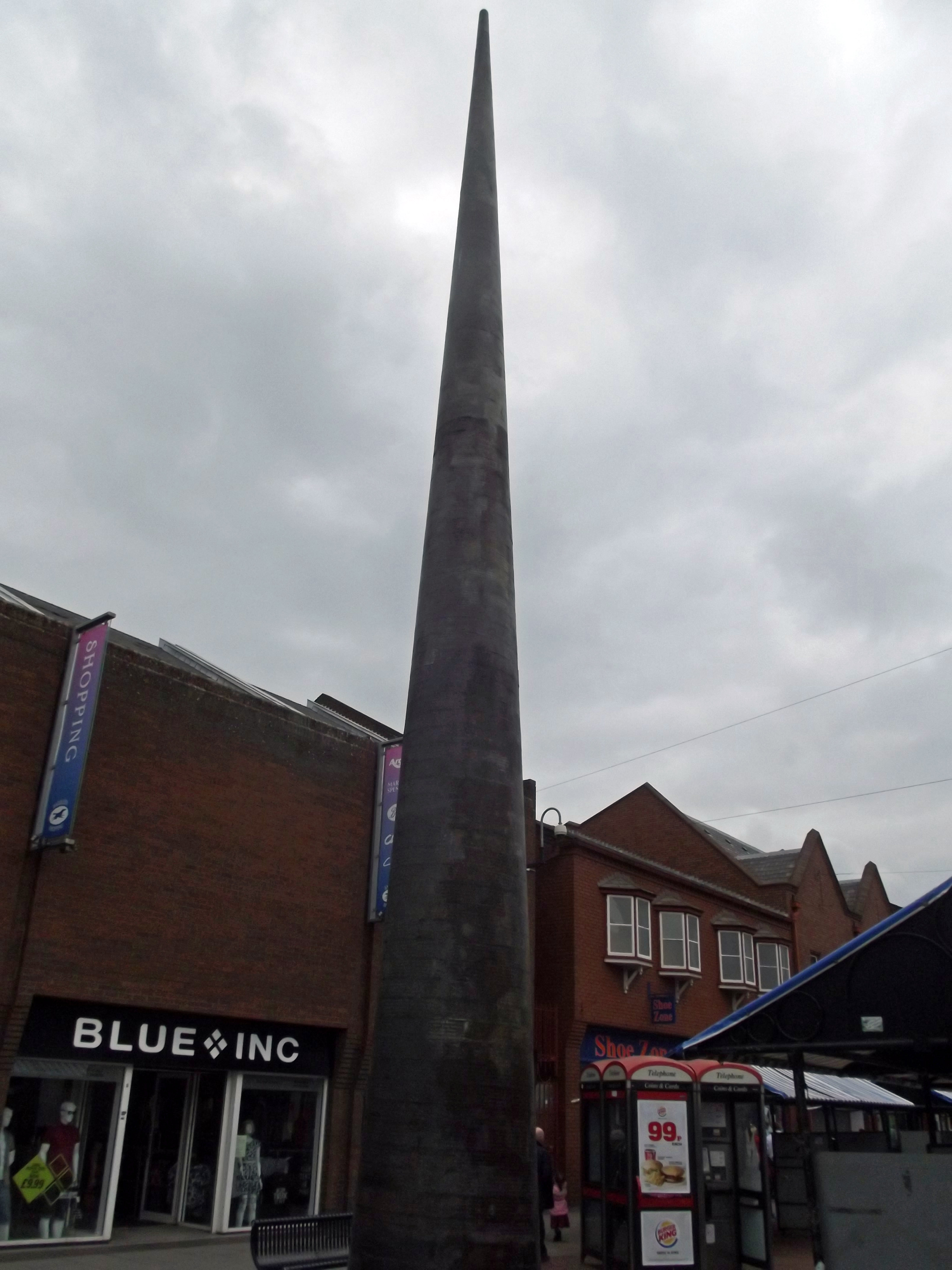 The Saddlers Shopping Centre in Walsall. Bronze sculptures outside the shopping centre.